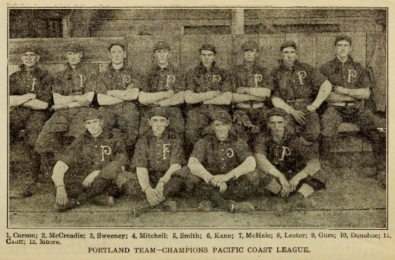 The 1906 Portland Beavers, a minor league baseball team from Portland, Oregon